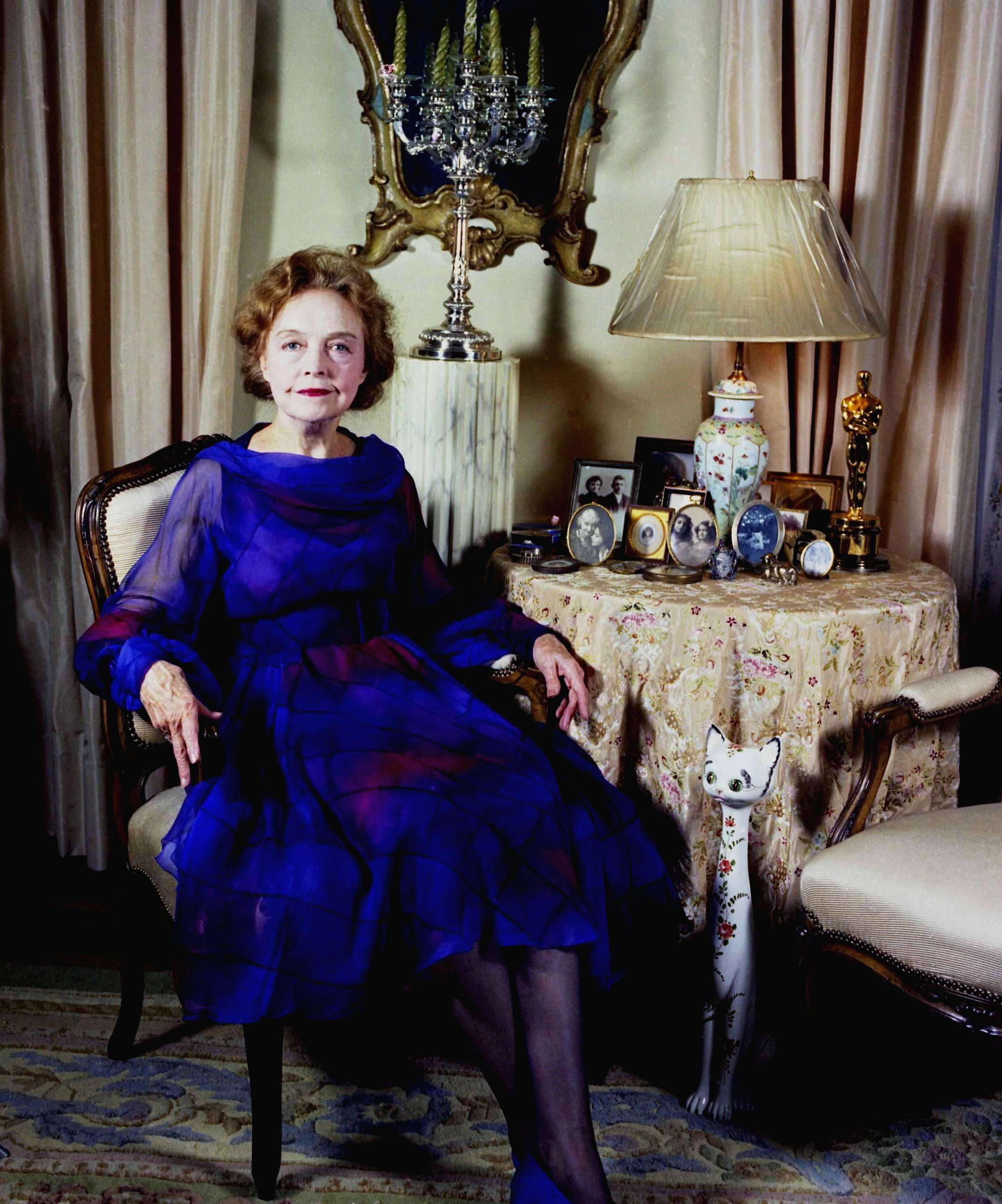 Lilian Gish in her New York Apartment.